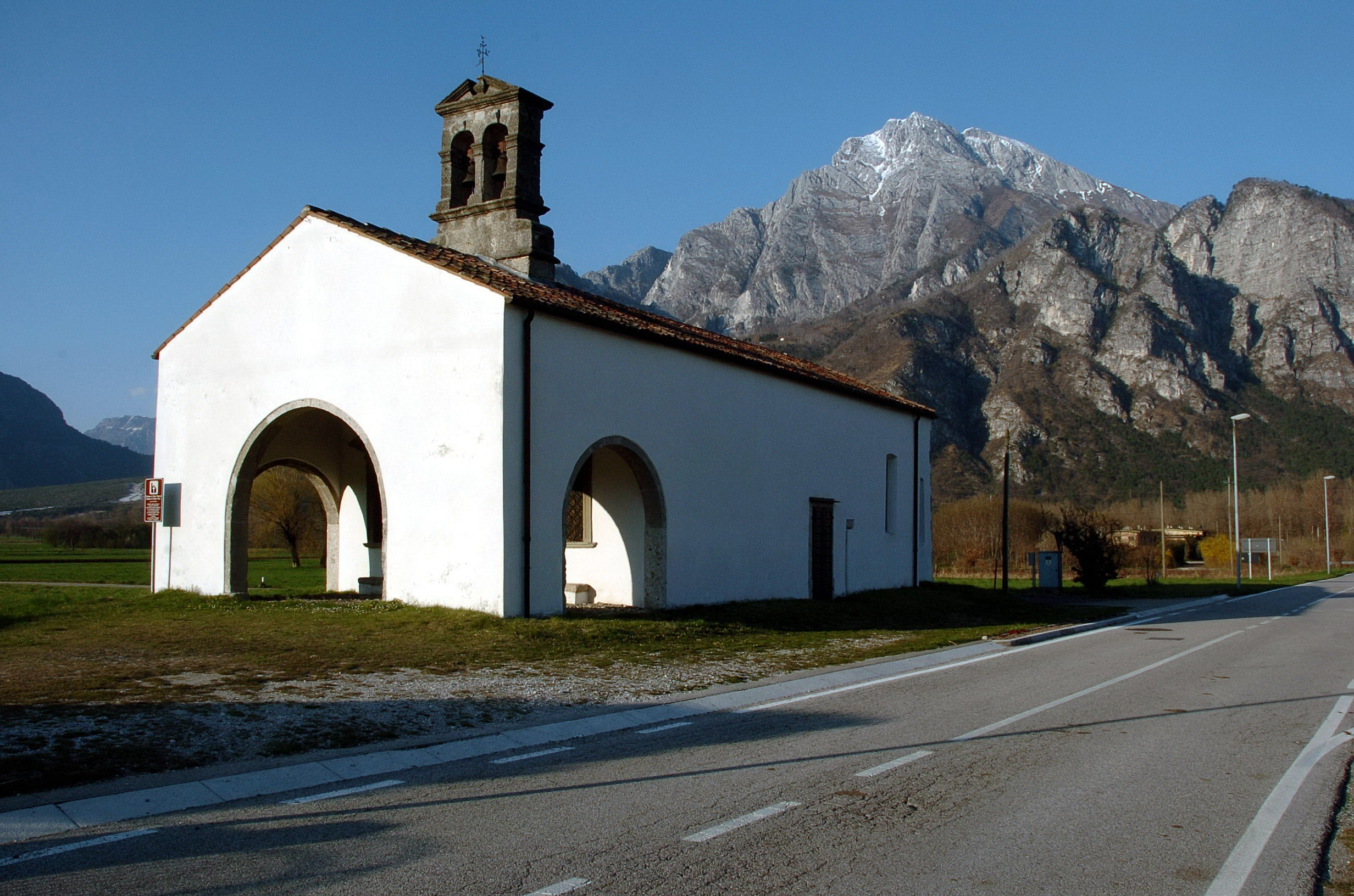 Church of San Rocco at Cavazzo Carnico, province of Udine, state Friuli-Venezia Giulia, Italy (in the background the Monte Amariana)